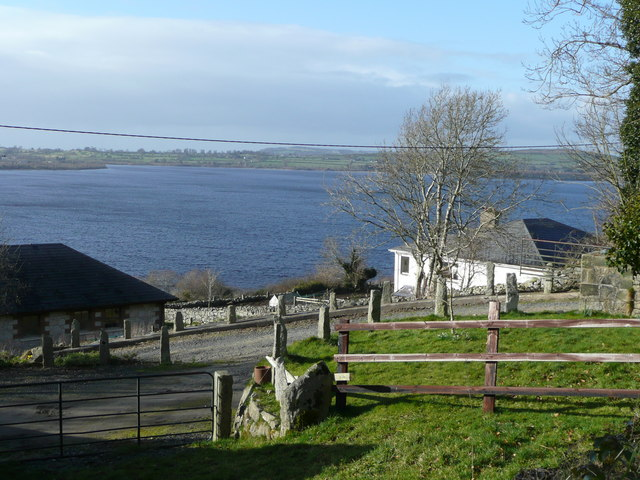 View west from Ballyknockan Looking over the Pollaphuca Reservoir.